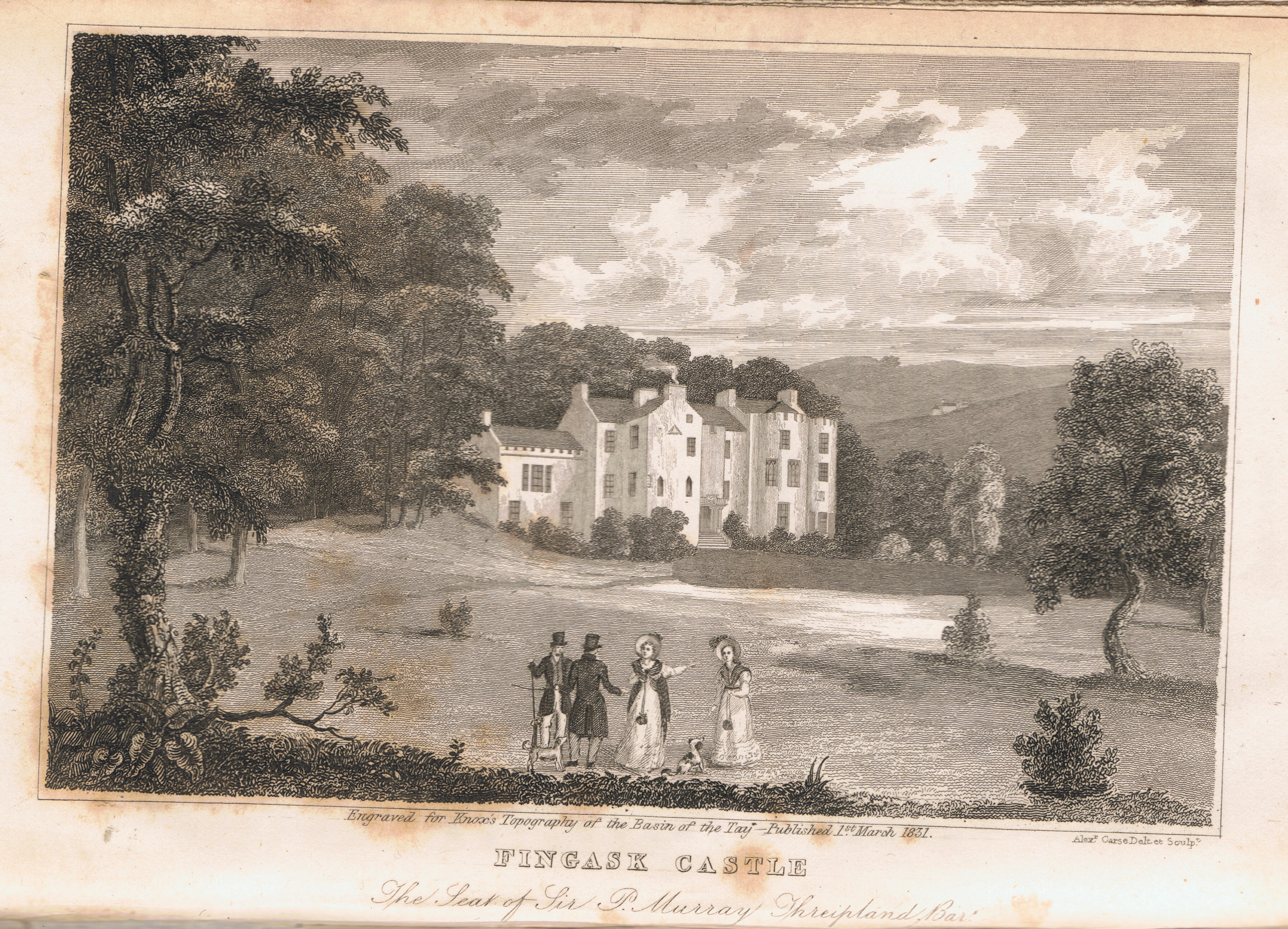 Scan (by me, Rodolph (talk) 18:05, 14 December 2014 (UTC)) of a print_of_Fingask_Castle,_Tayside,_by_Alexander_Carse._Published_by_James_Knox,_Edinburgh,_1831. Size: 3.5 inches x 5.5 inches (90mm x 140mm).